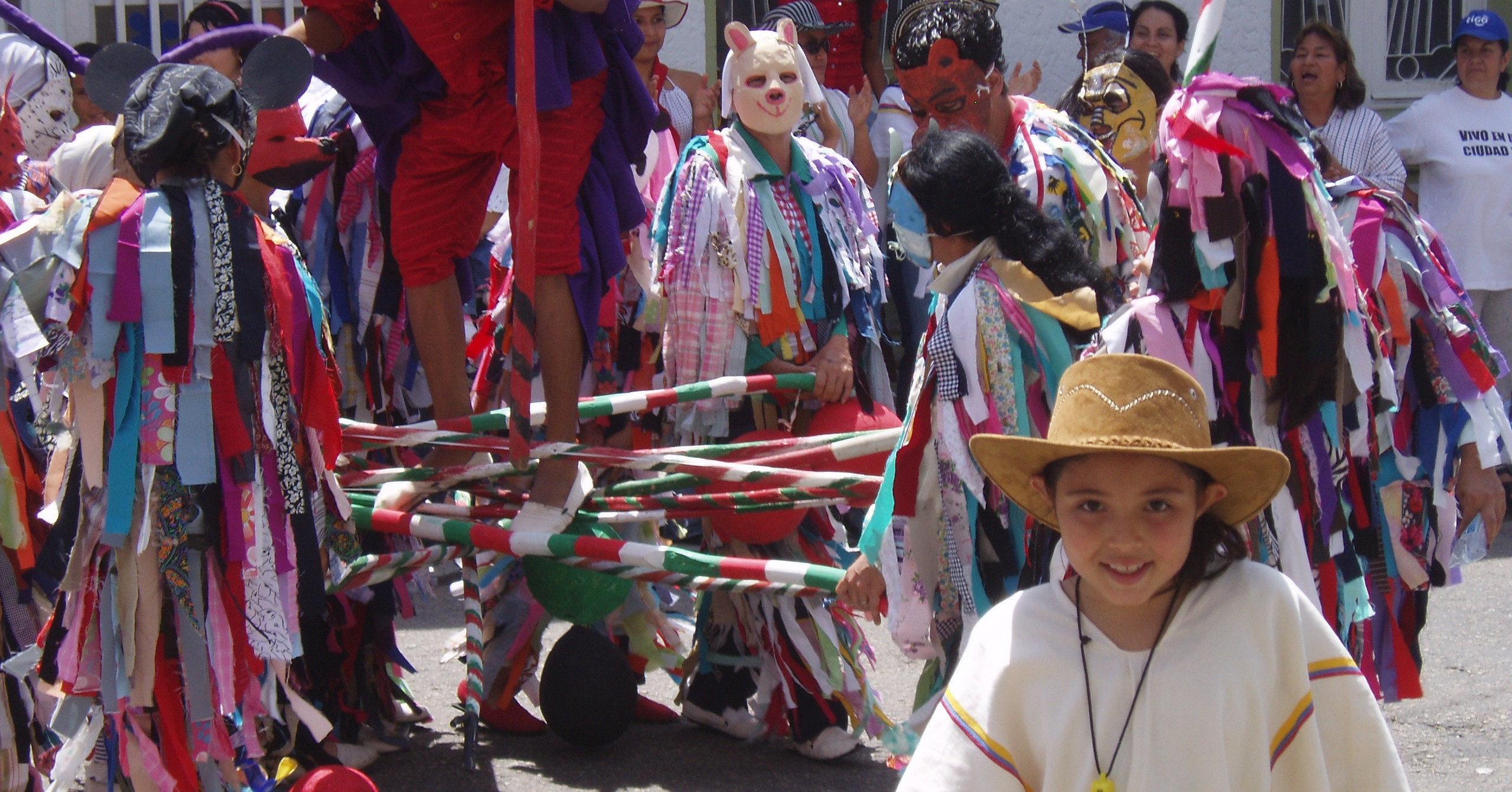 Matachin Warrier Pijao